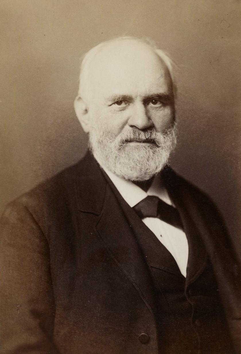 Heinrich Kieper